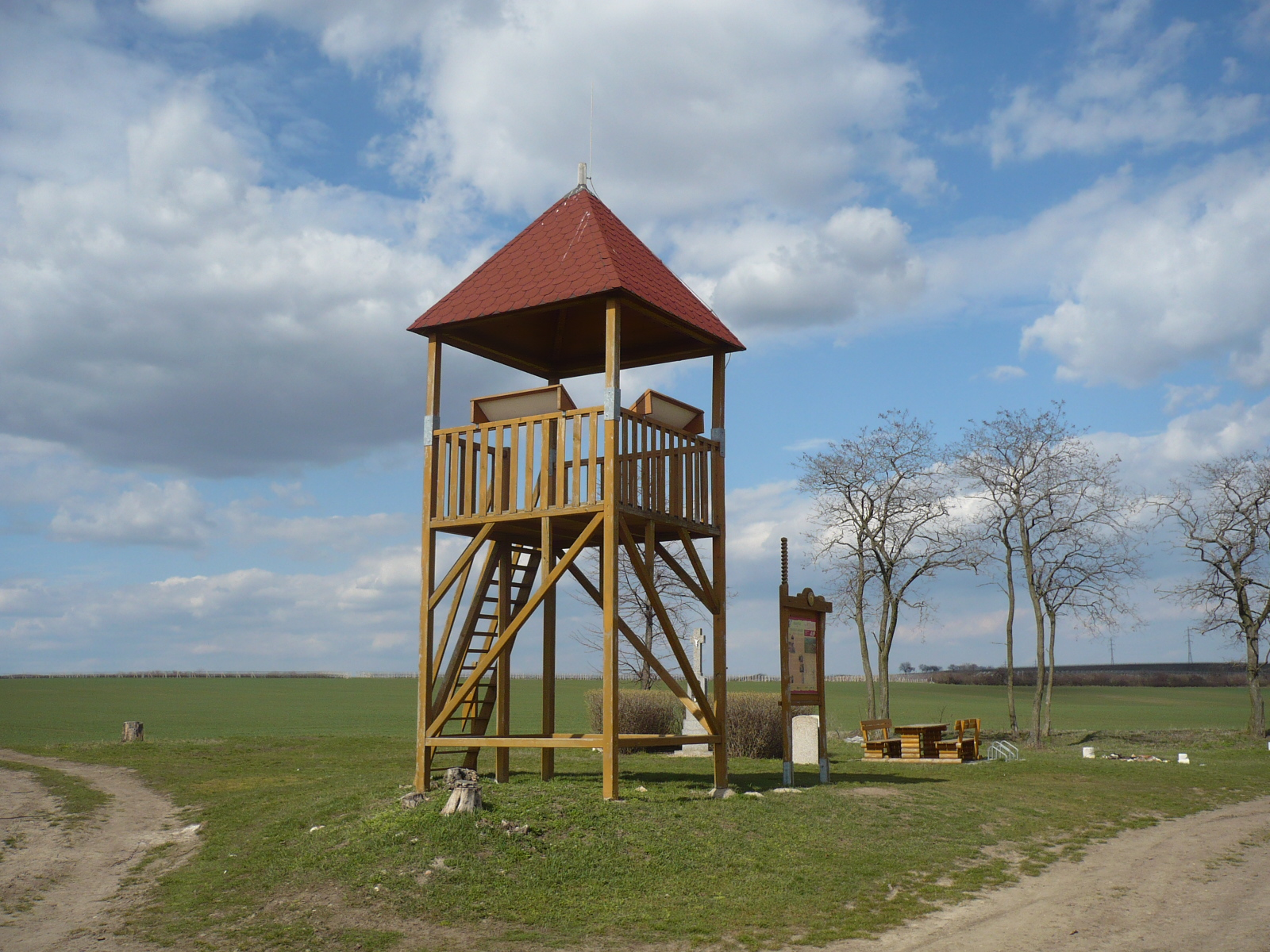 Observation Tower U Obrazku, near Starovicky, South Moravian Region